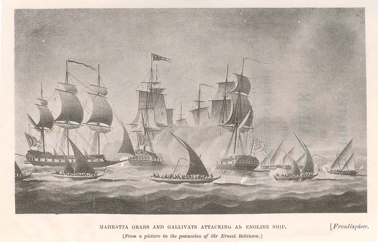 Maratha Gurabs (Grabs) and Galbats (Gallivats) attacking an British East India Company ship